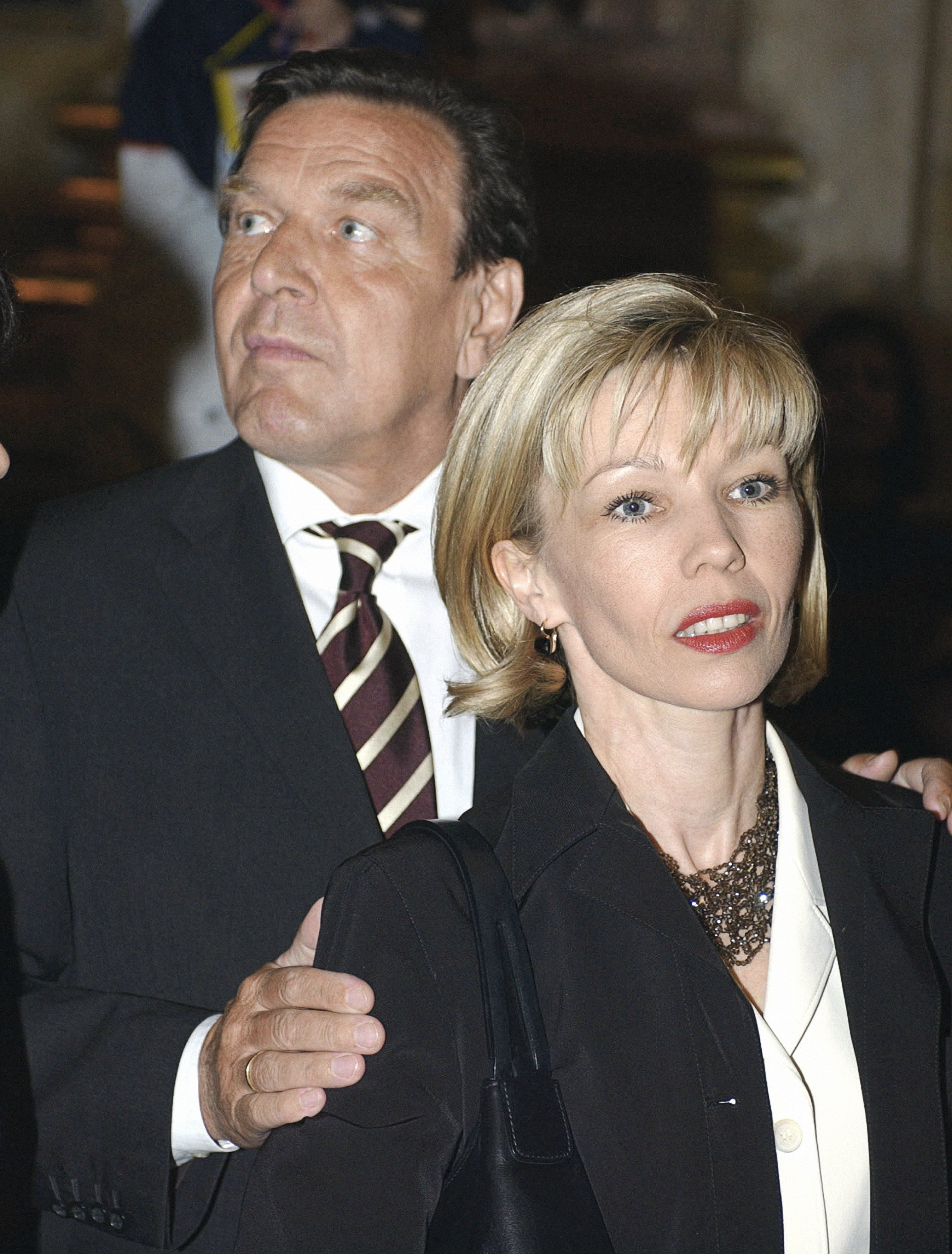 ST ISAAC'S CATHEDRAL, ST PETERSBURG. German Chancellor Gerhard Schroeder and his wife, Doris Schroeder-Koepf.